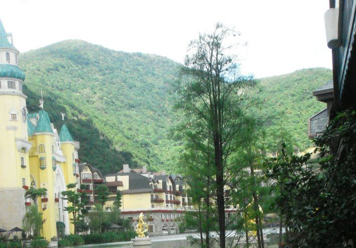 OCT East, Shenzhen